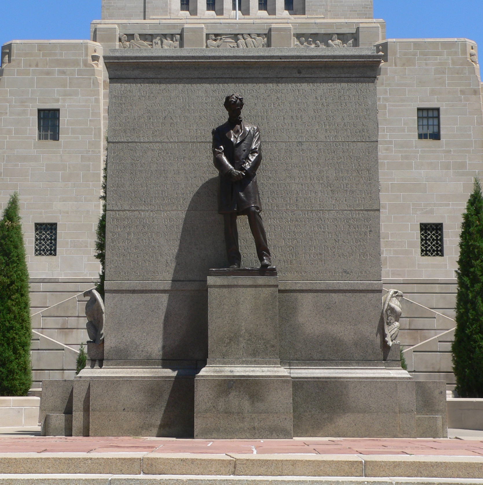 Nebraska State Capitol in Lincoln, Nebraska: Daniel Chester French sculpture of Abraham Lincoln, facing westward away from west entrance of building. The text of the Gettysburg Address is carved into the background.